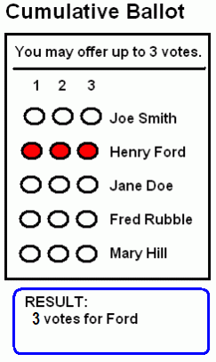 Cumulative voting ballot, 3 votes for 1 candidate